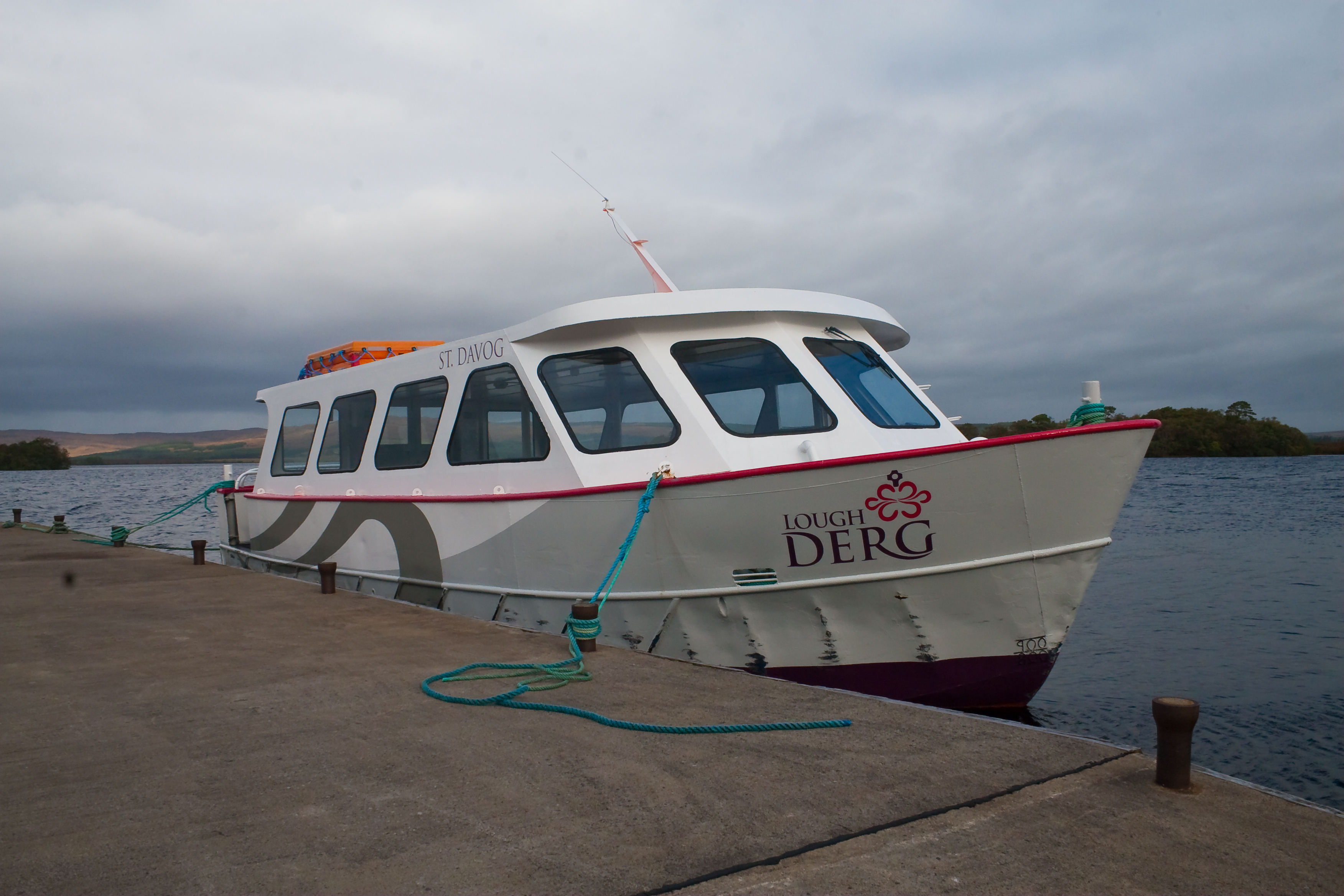 Lough Derg, County Donegal, Ireland Boat St. Davog at the mainland pier of Lough Derg. This boat was put into service in 1993 and belongs to the small fleet of boats which is used to transfer pilgrims to Station Island.